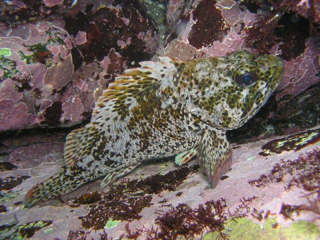 ムラソイ Sebastes pachycephalus